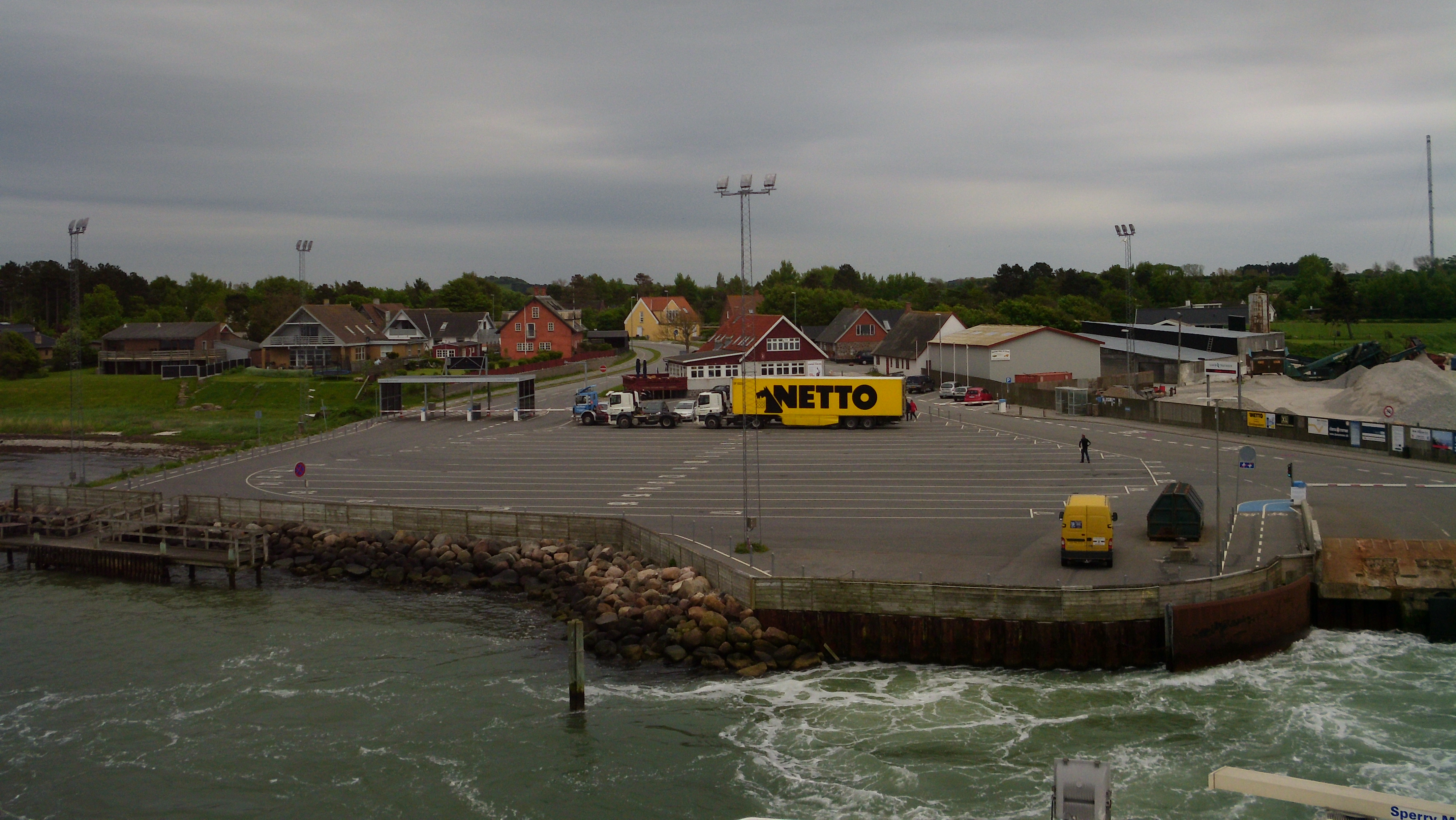 The port in Sælvig on the Samsø island in Denmark, as seen from a boat leaving towards Hou, Jylland.